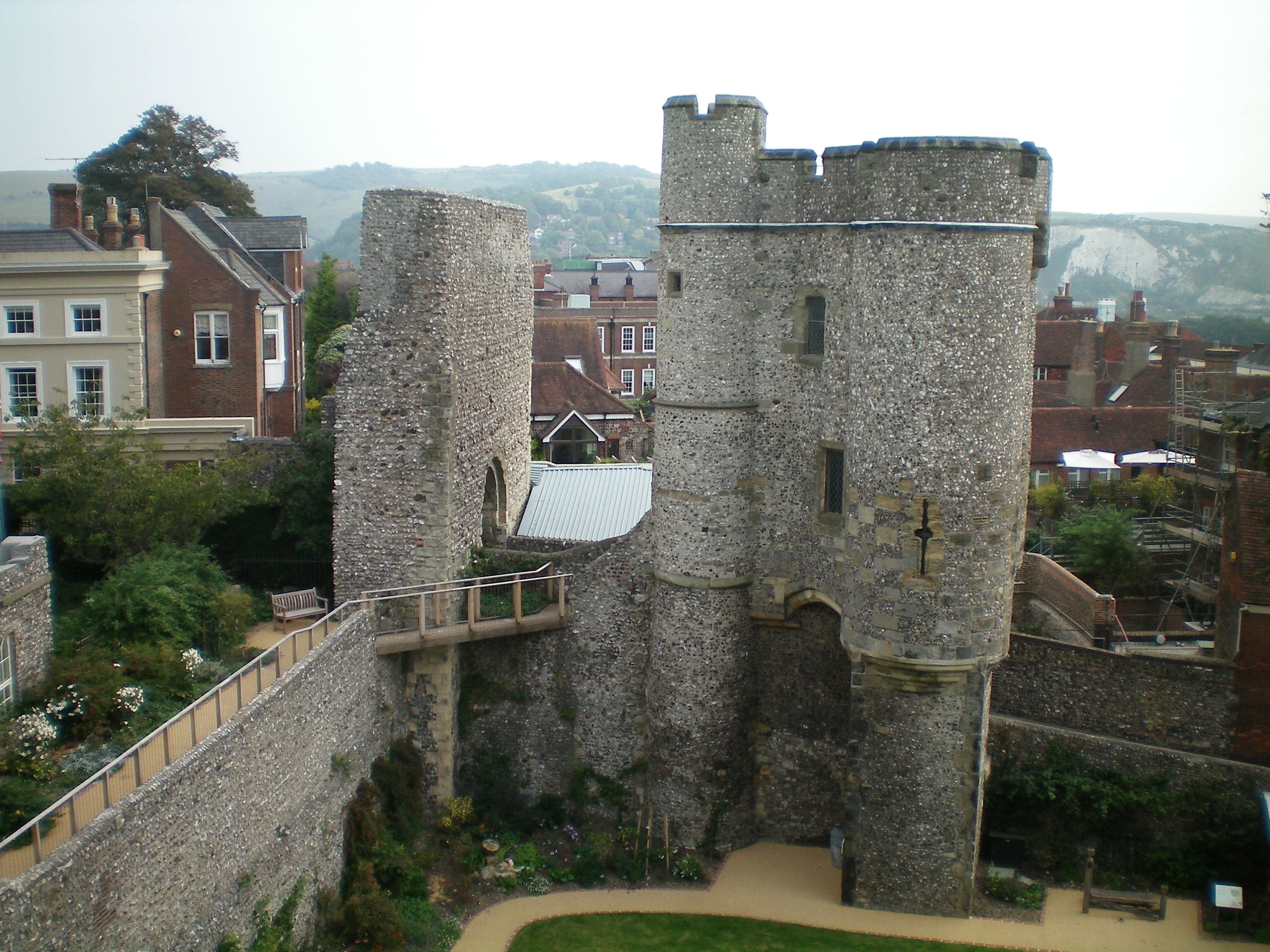 The barbican at Lewes Castle, East Sussex, England. The surviving wall of the Norman gatehouse is on the left behind the later structure.